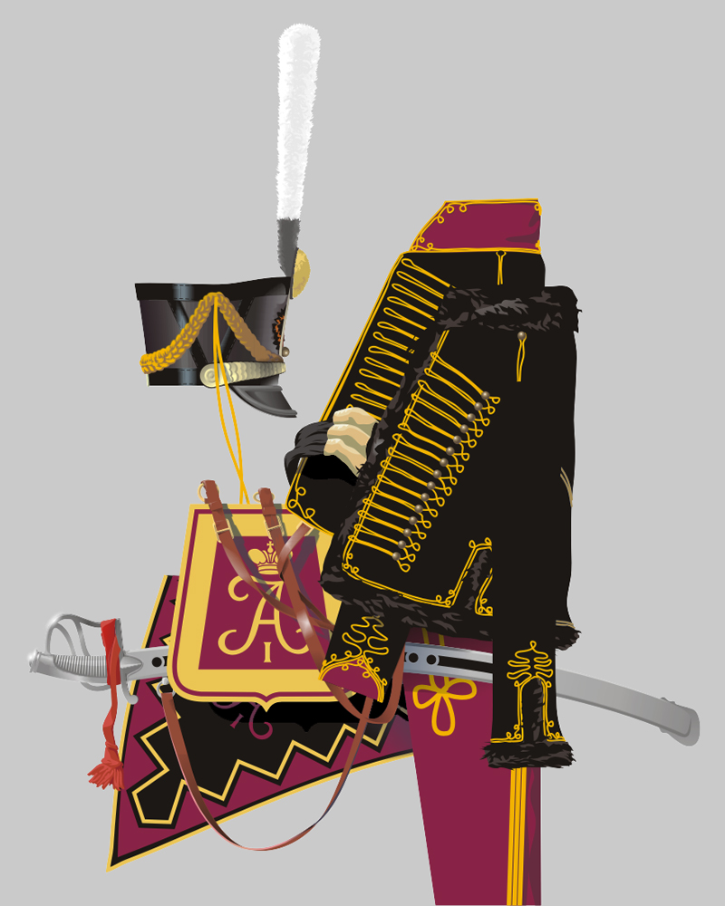 Trooper of Irkutsk Hussar regiment’s full dress: dolman, pelisse, barrel sash, breeches, shako (here of 1812), shabraque, sabretache & sabre. Russian army of 1812